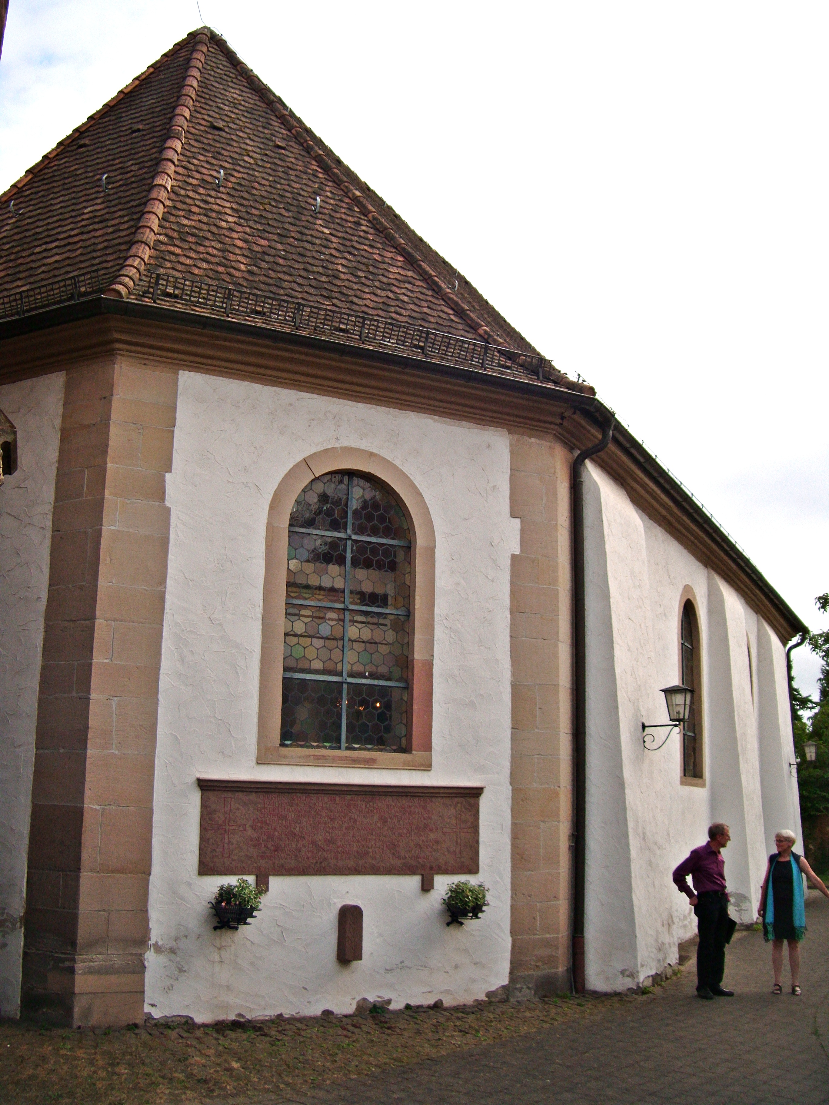 Prot. Peterskirche Sausenheim